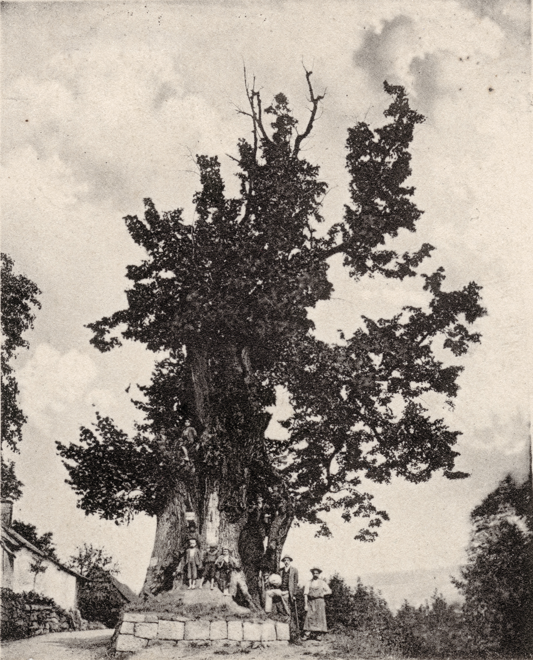 Millennial lime-tree in Tatobity (Tilia platyphyllos × euchlora), Czech republic, around 1910 (not later than 1914)